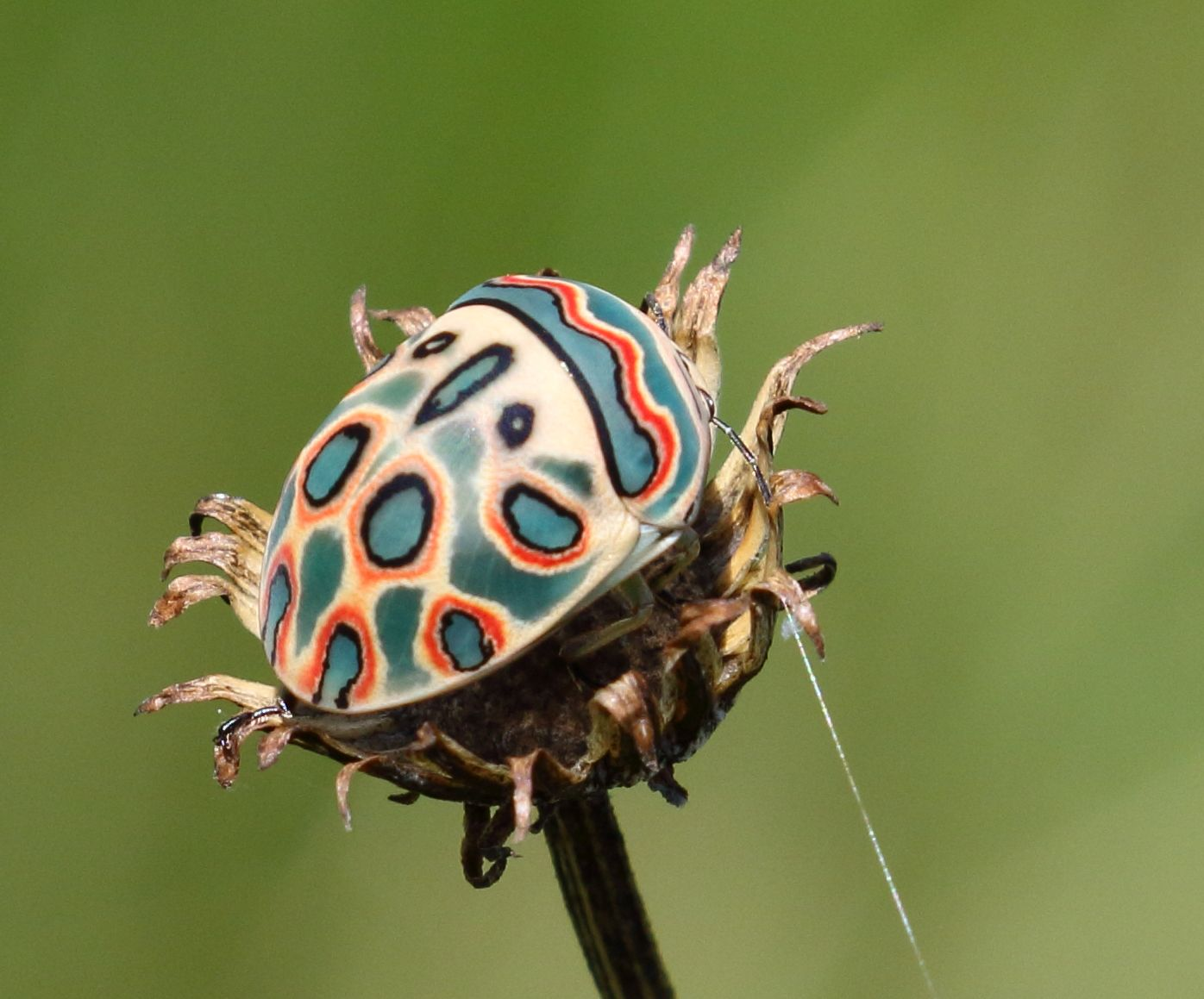 Picasso Bug Sphaerocoris annulus in Cumberland Nature Reserve, KwaZulu-Natal.